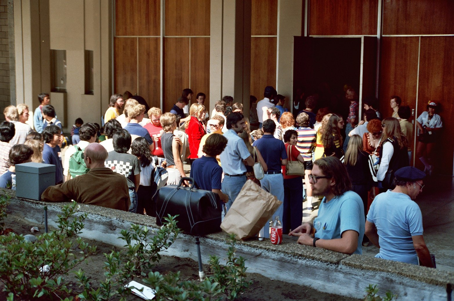 1982 San Diego Comic-Con International. Scanned from the original 35MM film negative. NOTE: Permission granted to copy, publish, broadcast or post any of my photos, but please credit "photo by Alan Light" if you can. Thanks.